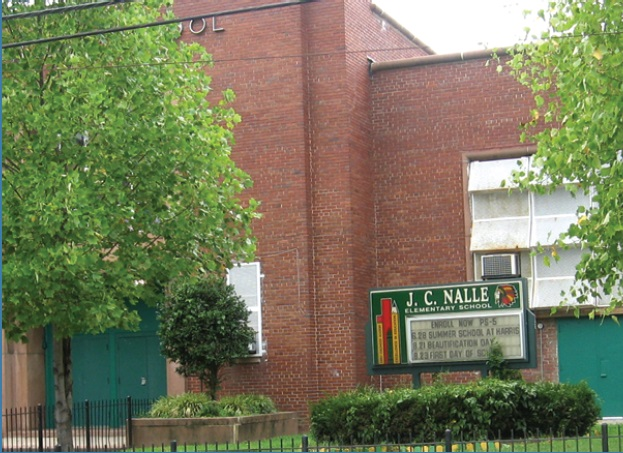 Image of the front entrance to the J.C. Nalle Elementary School in the Marshall Heights neighborhood of Washington, D.C., in 2012.